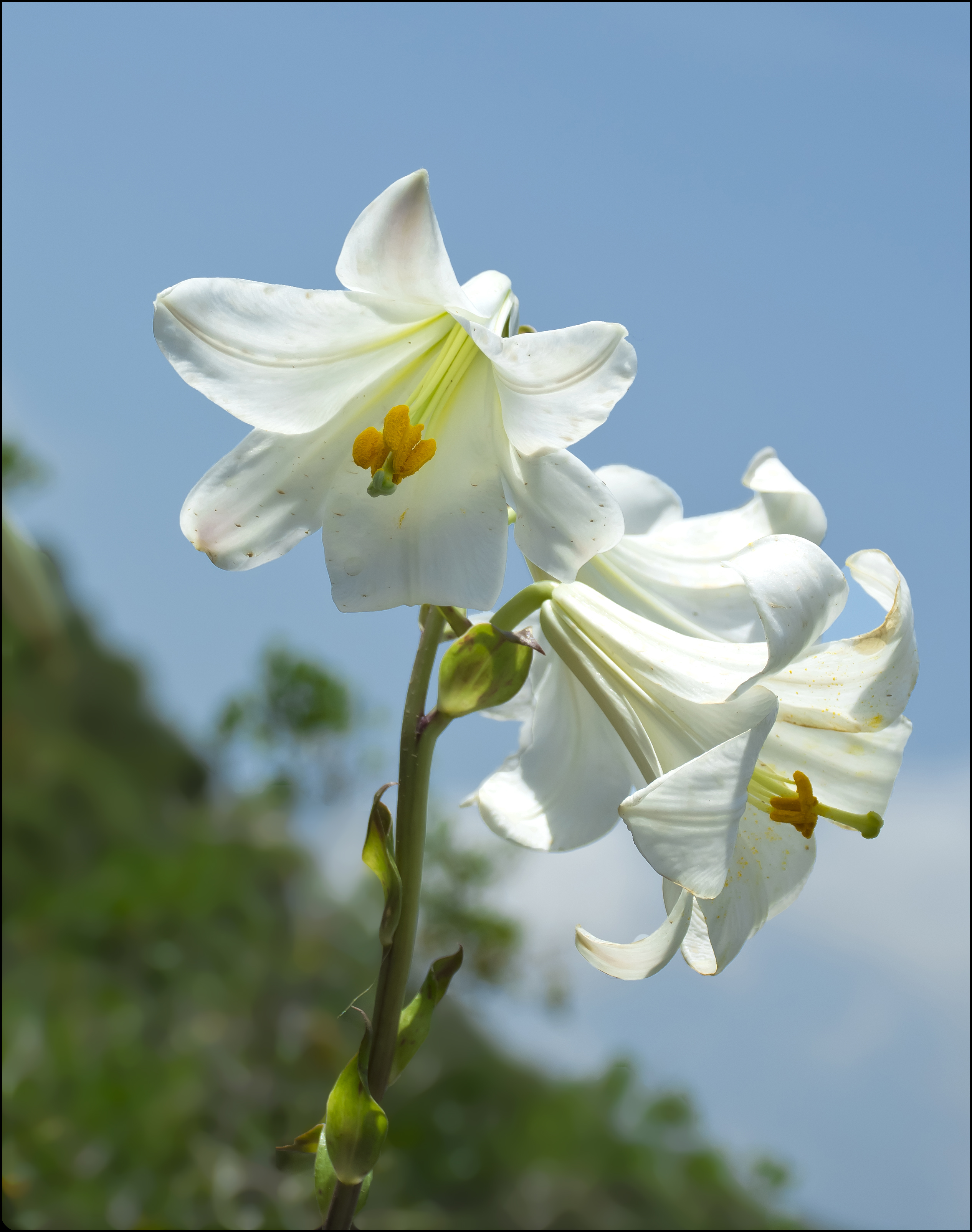 Lilium candidum, Wadi Kelach, Mount Carmel, Israel